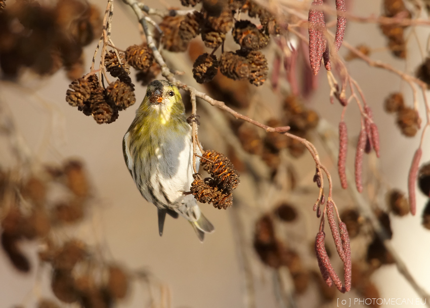 Carduelis spinus - female, Chomoutov, Morava river, CZ